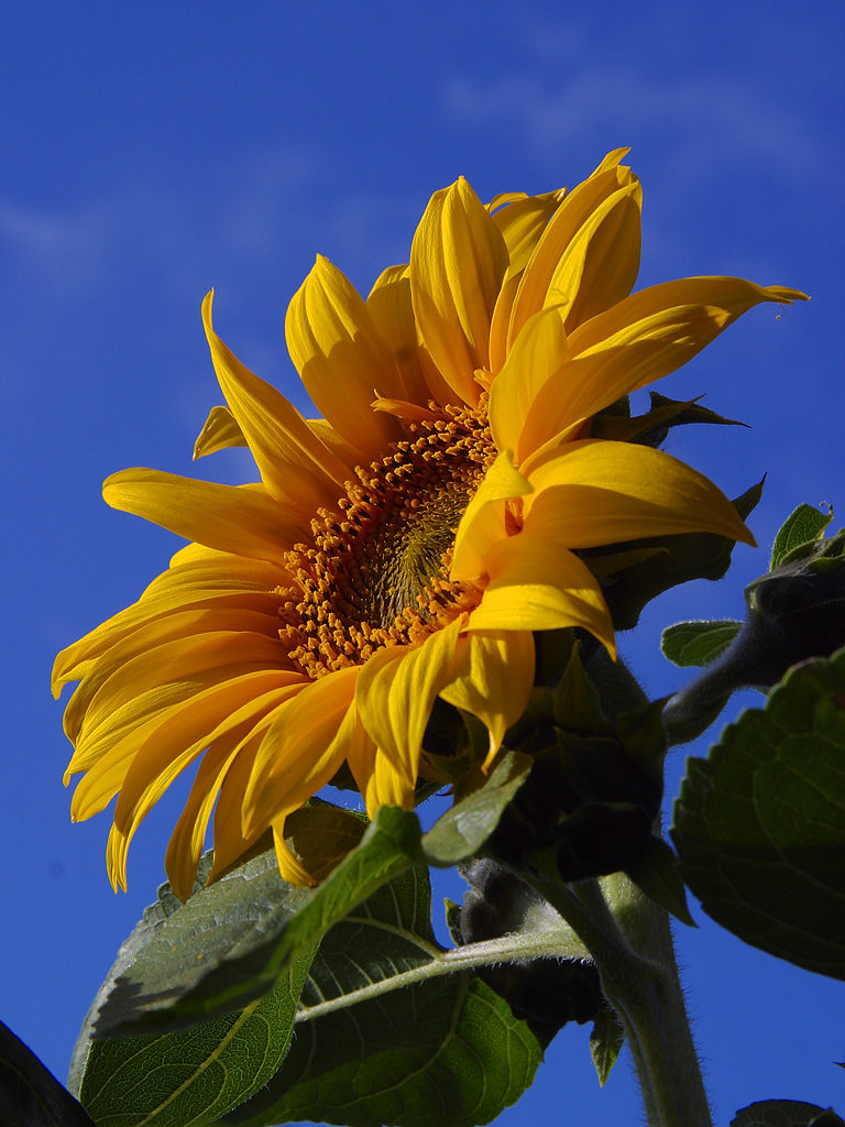 A sunflower (Helianthus annuus) completely exposed.